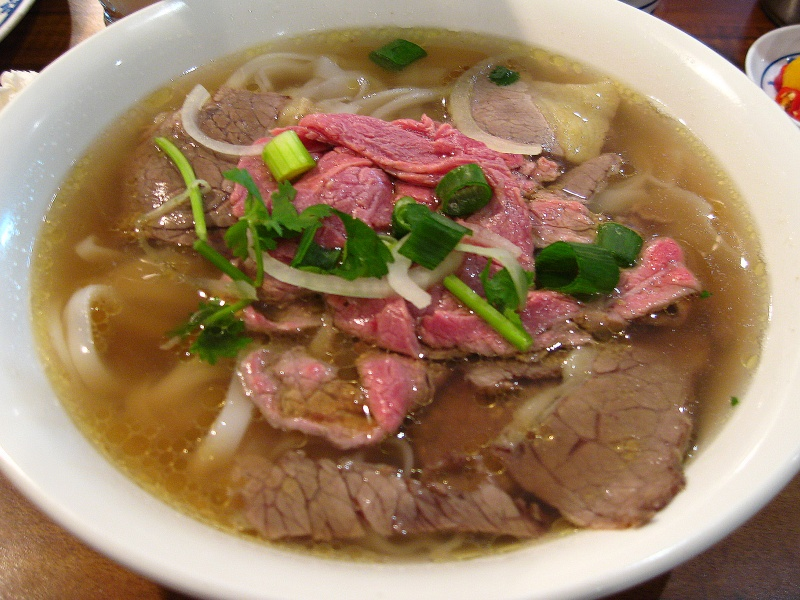 Vietnamese phở noodle soup with sliced rare beef and well done beef brisket.